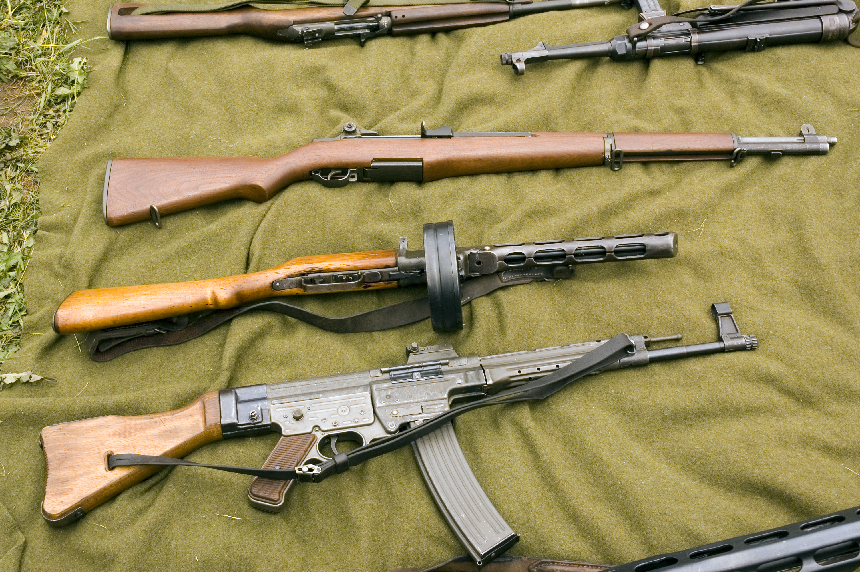 M1 Garand, PPsh-41, Sturmgewehr 44. These folks had over $100,000 of machine guns laid out on that tarp.